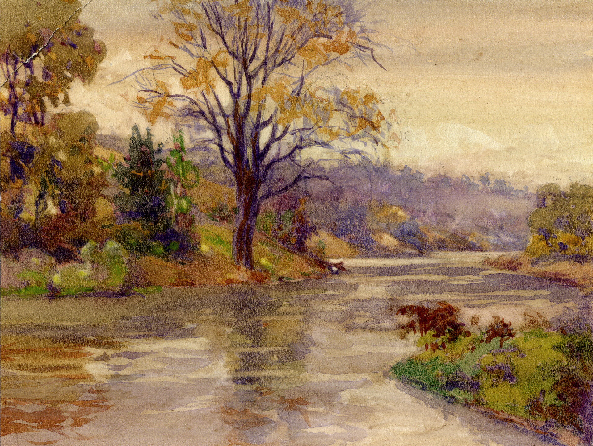 This is a watercolour rendition of the place where Laura Secord, née Ingersoll (1775-1868), crossed Twelve-Mile Creek near St. Catharines on June 23, 1813. She walked 20 miles through the bush in enemy-held territory to warn the British soldiers and Mohawk warriors of an impending American attack. Together, they successfully repulsed the invaders at the Battle of Beaver Dams. Her Loyalist husband, James, had been unable to assist her due to wounds sustained in the Battle of Queenston Heights. Creator: Cotton, John Wesley, 1869-1931, attributed to Date: 1913 Identifier: JRR 1333 Cab IV Format: Picture Rights: Public domain Courtesy: Toronto Public Library. More information: (view details and larger image)